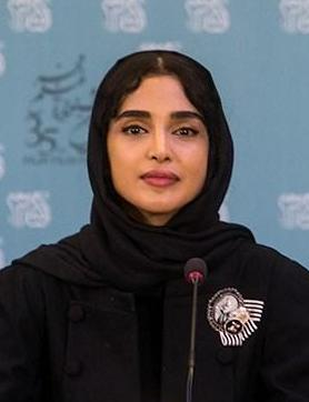 Media conference of Sophie and the beast at Milad tower.